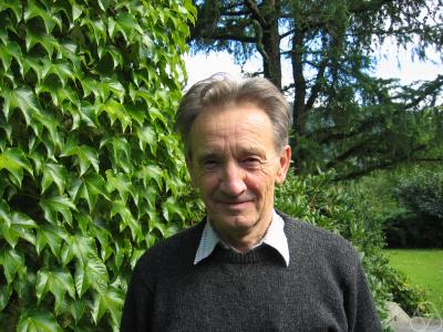 Mathematician Hans Triebel in Oberwolfach, 2004.